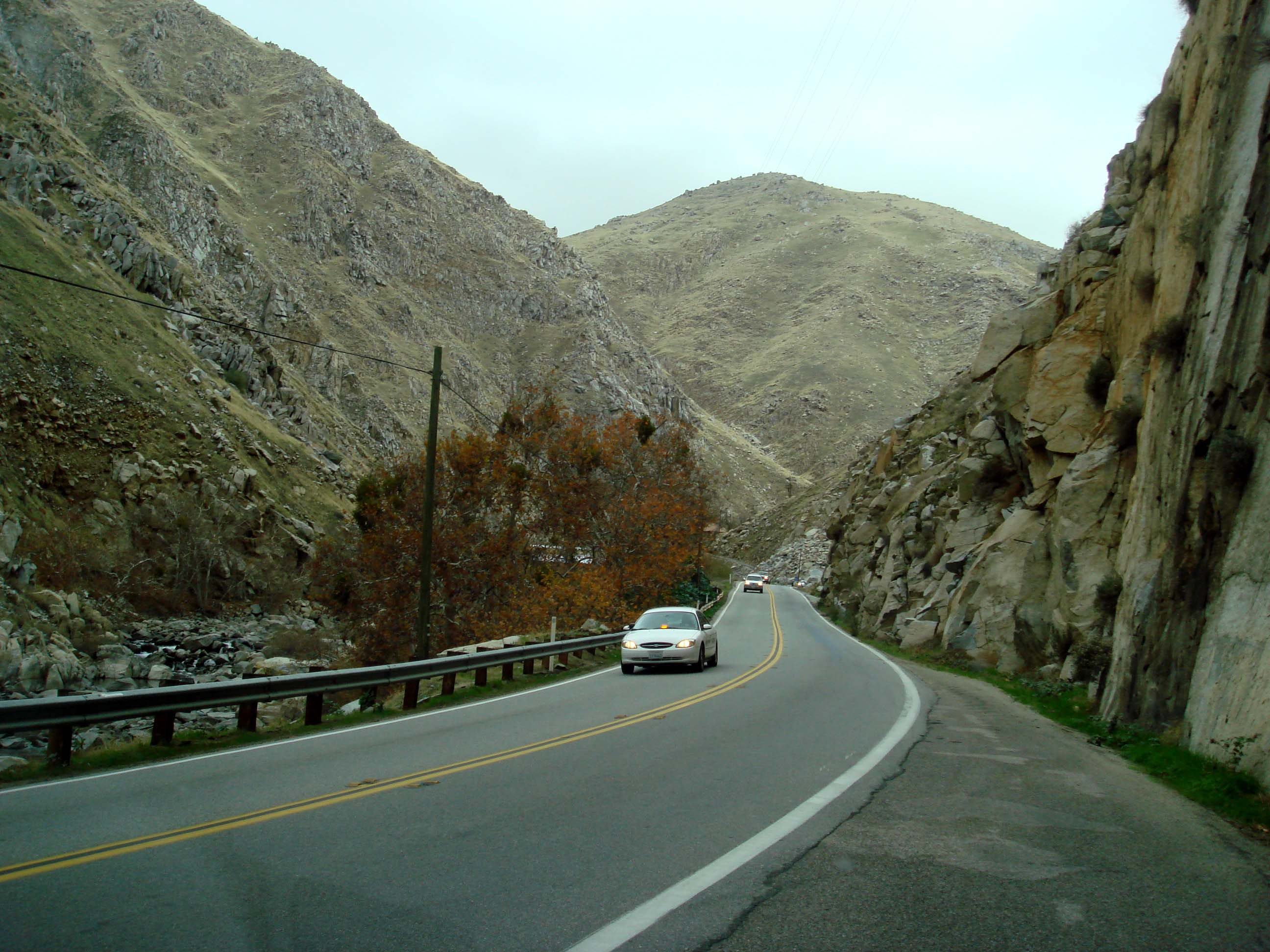 Highway 178 and the Kern River cut through the narrow mouth of the Kern Canyon for a spectacular drive only just outside Bakersfield, California's NE city limits on the way to Lake Isabella.